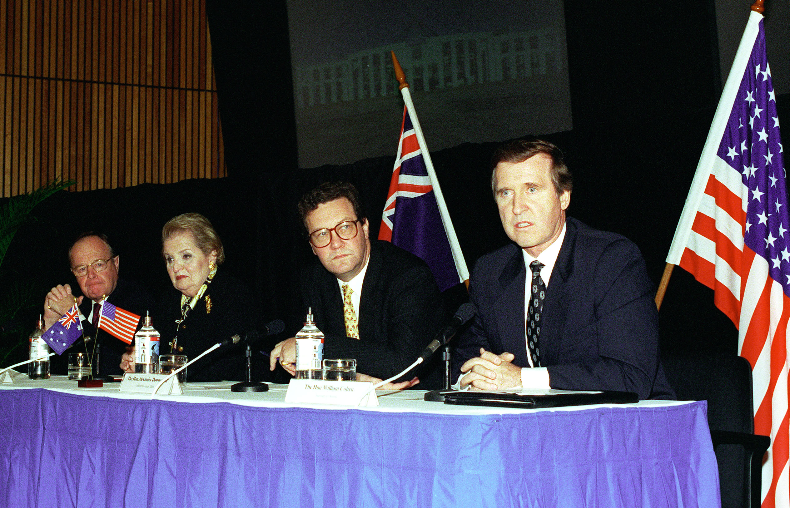 Secretary of Defense William S. Cohen (right) makes an opening statement during a joint press conference at the conclusion of the annual Australia-United States Ministerial Consultations in Sydney, Australia, on July 31, 1998. The release of the joint communiqué and announcement of a joint security declaration was presented at HMAS Watson, Sydney, Australia by the attending leaders, from left to right: Australian Minister of Defense Ian McLachlan, United States Secretary of State Madeleine Albright, Australian Minister for Foreign Affairs Alexander Downer, and Cohen. DoD photo by Helene C. Stikkel. (Released)